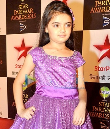 Ruhanika Dhawan at the 2015 Star Parivaar Awards